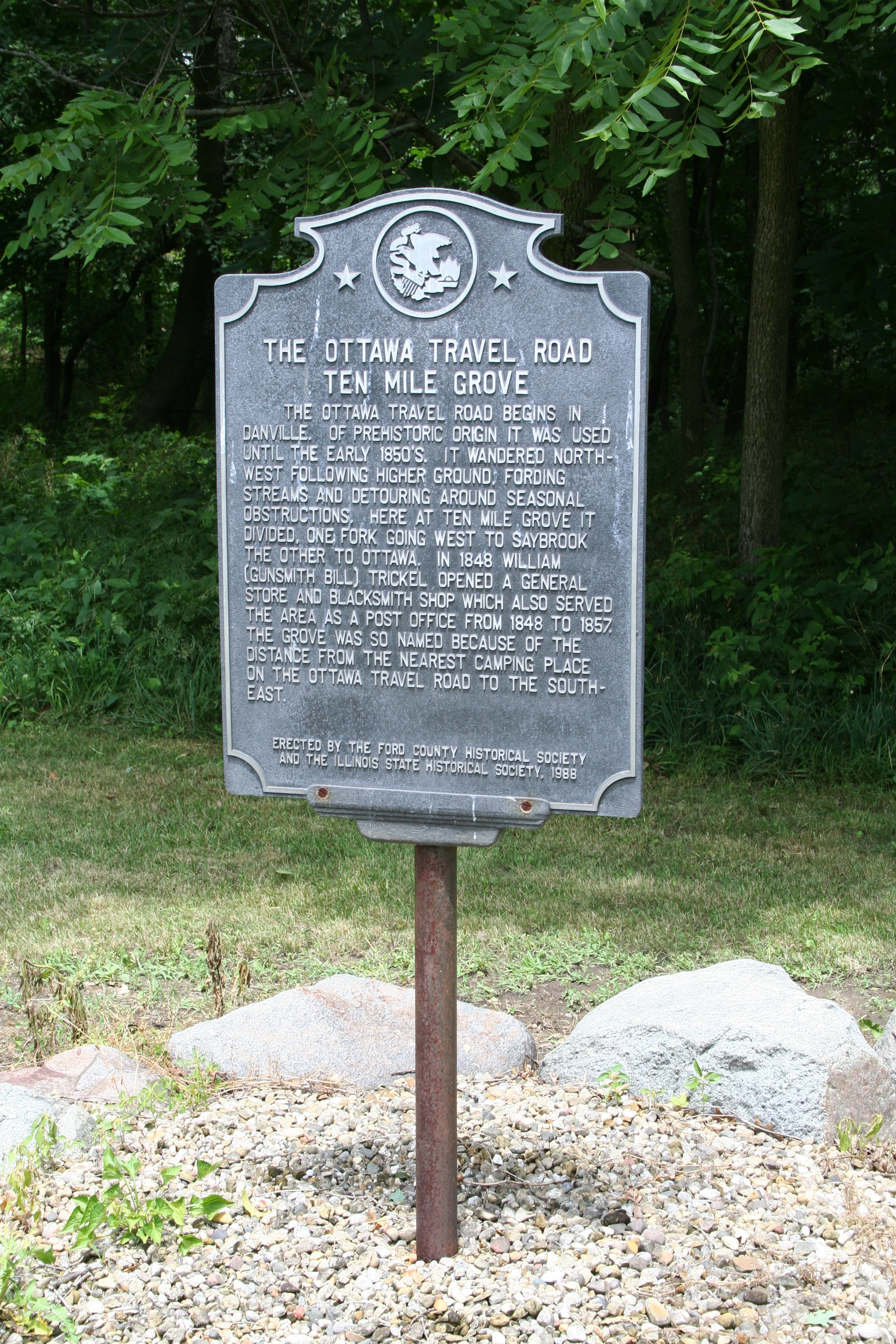 Ten_Mile_Grove_sign, Ford County, Illinois